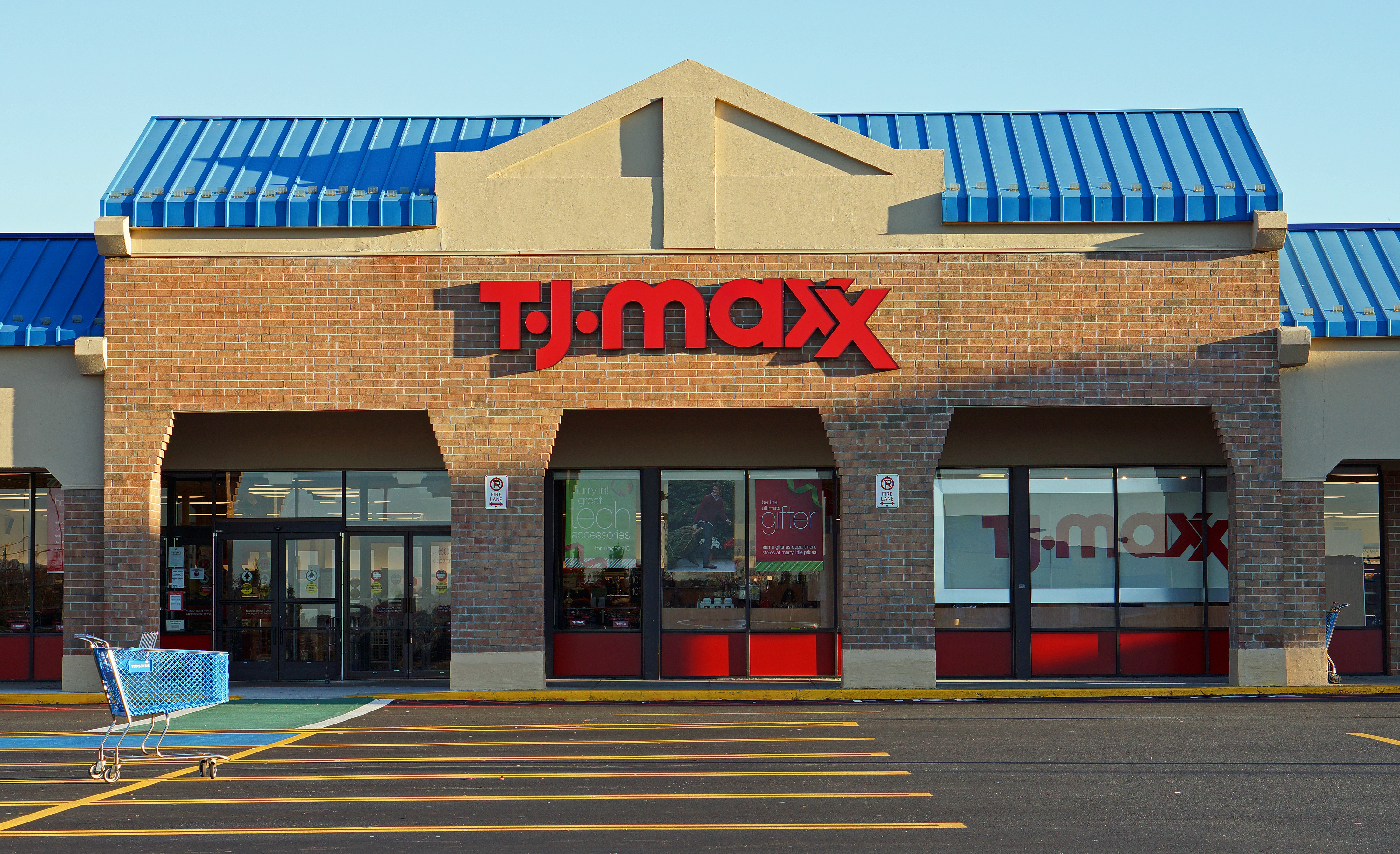 T.J. Maxx, Peabody, Massachusetts